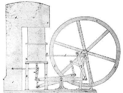 Illustration to Robert Stirling's 1816 patent application of the heat engine which later came to be known as the Stirling Engine.